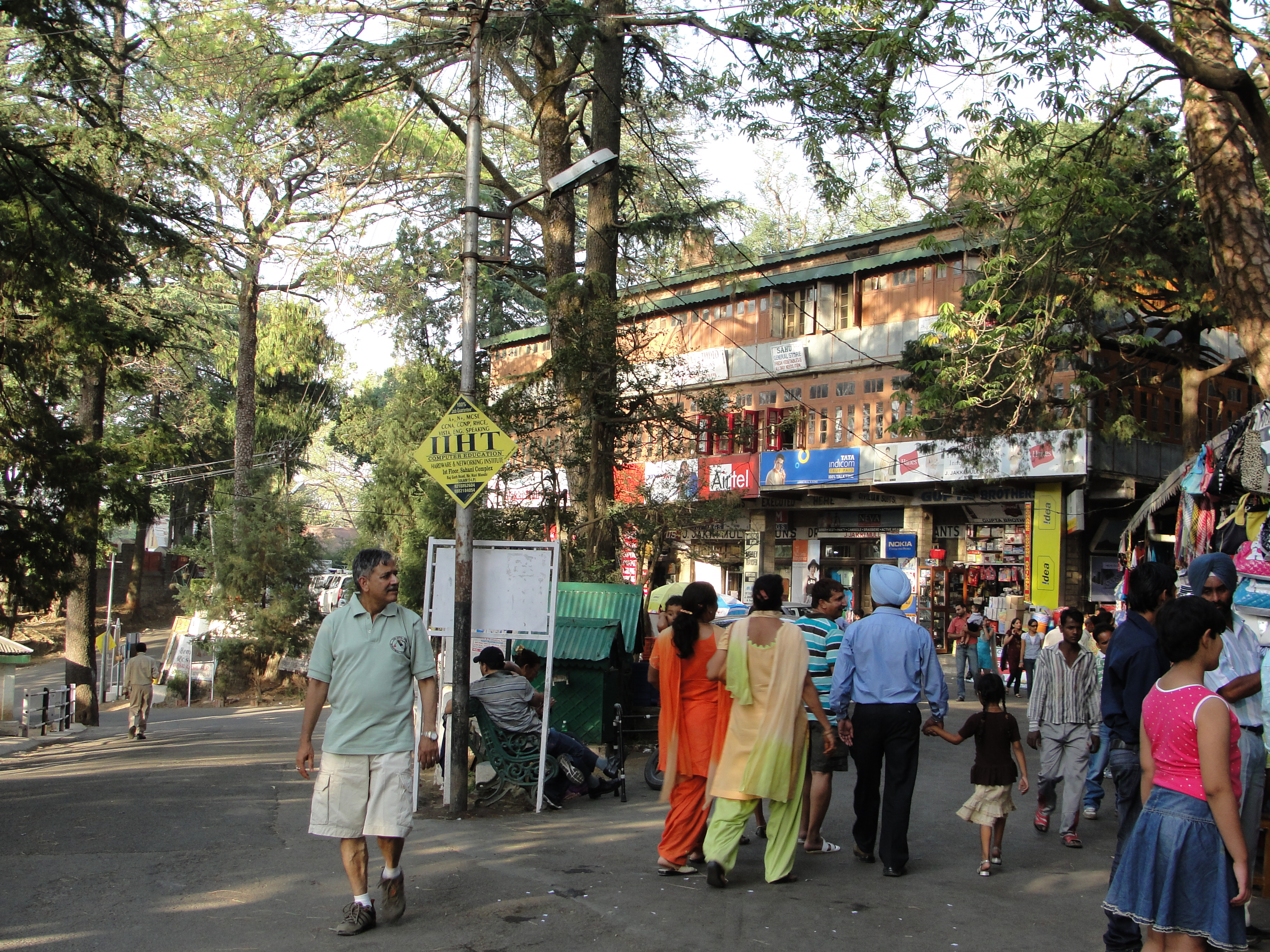 An Evening at the "Lower Pine Mall" Kasauli in Himachal Pradesh